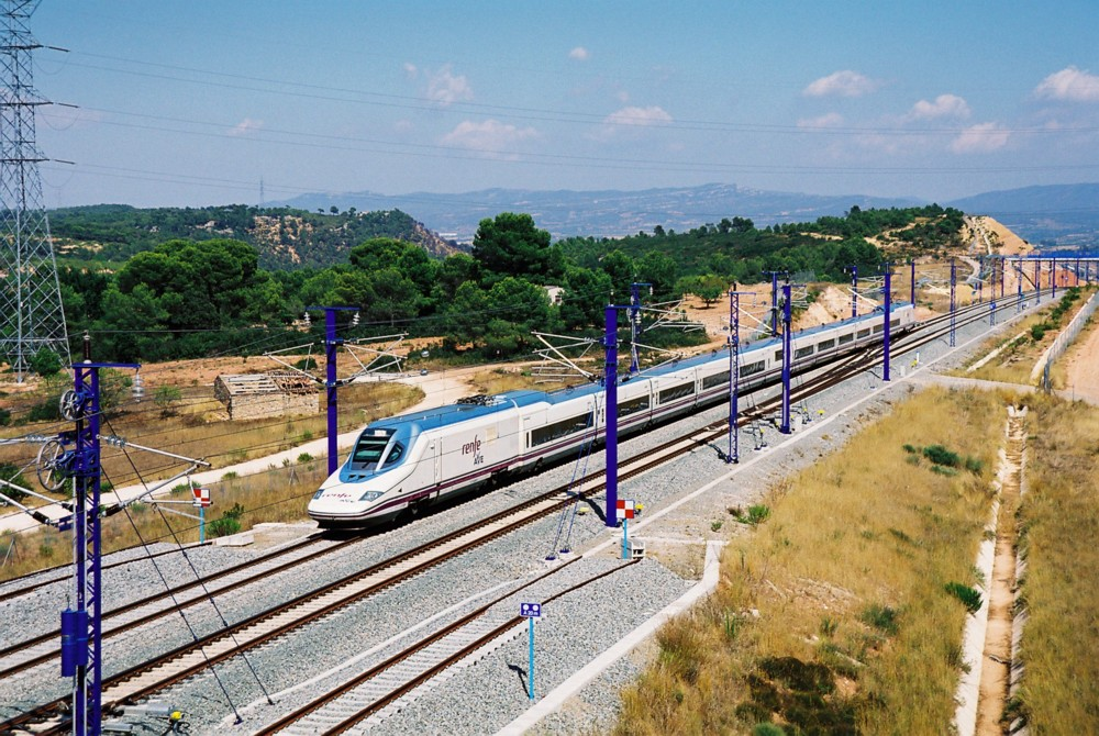 102-014 near Montblanc